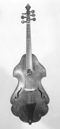 A violone by Ernst Busch, c1630